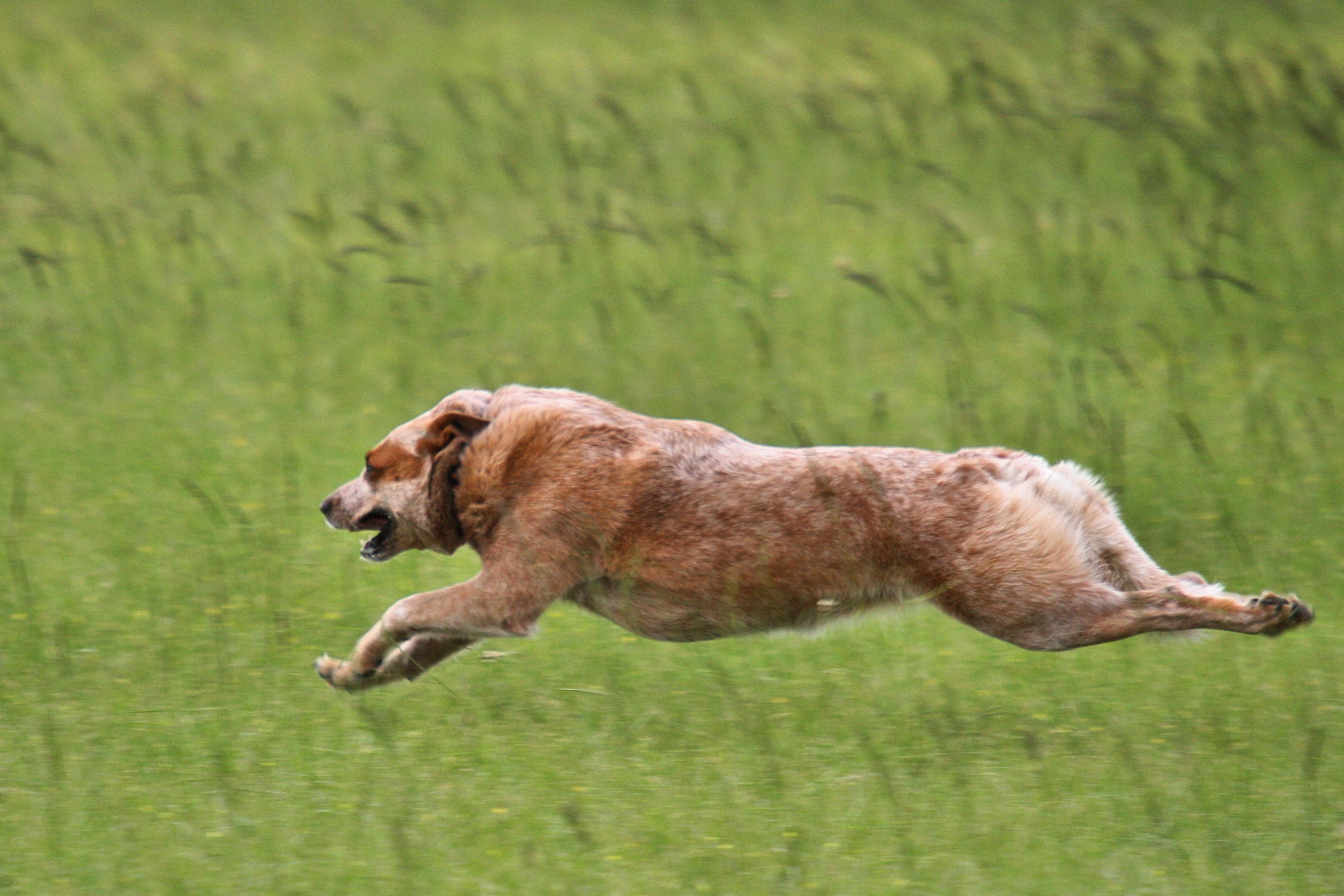 Australian Cattle Dog participating in a Lure Field Trial